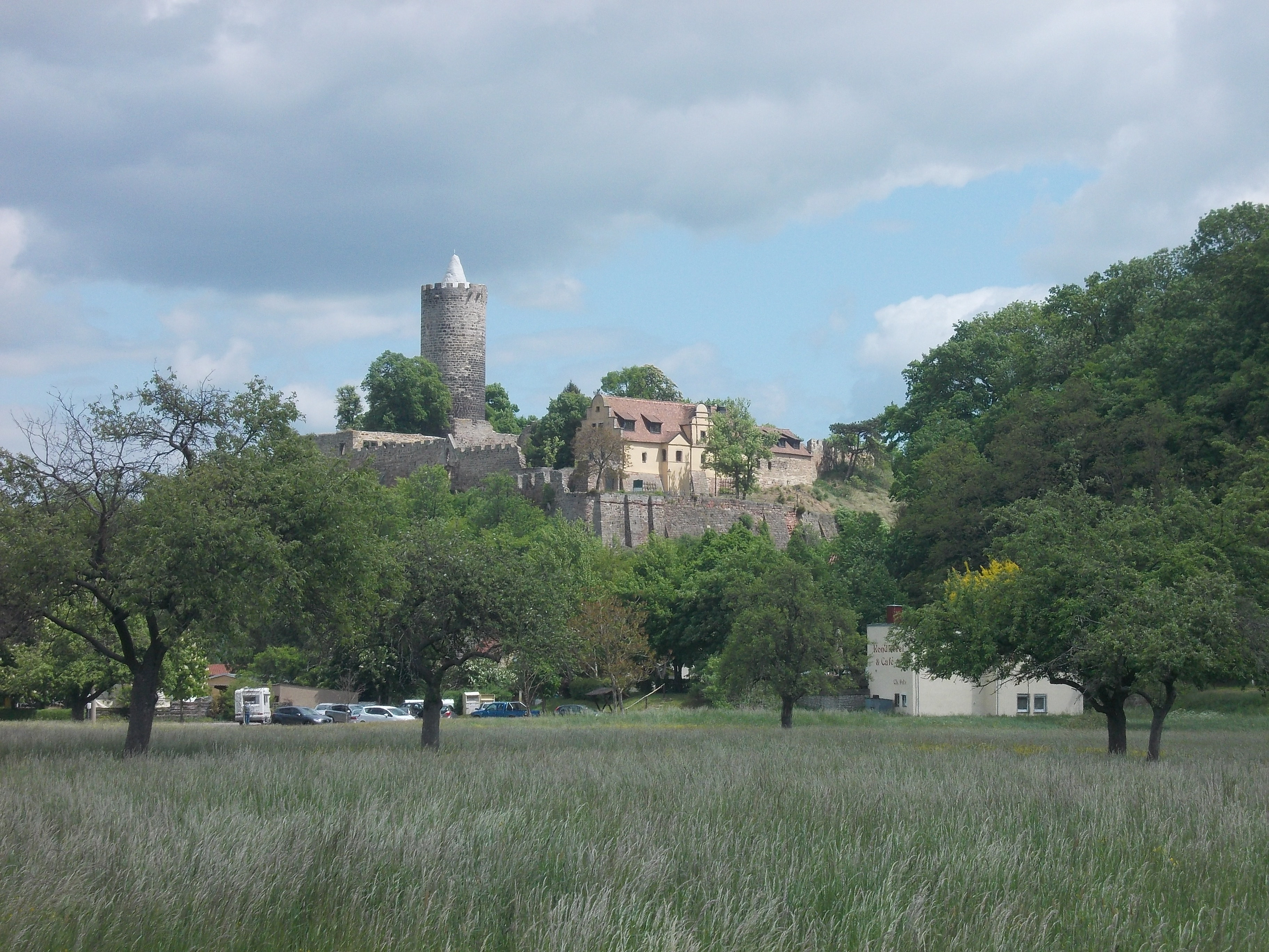 Schönburg Castle (district: Burgenlandkreis, Saxony-Anhalt)